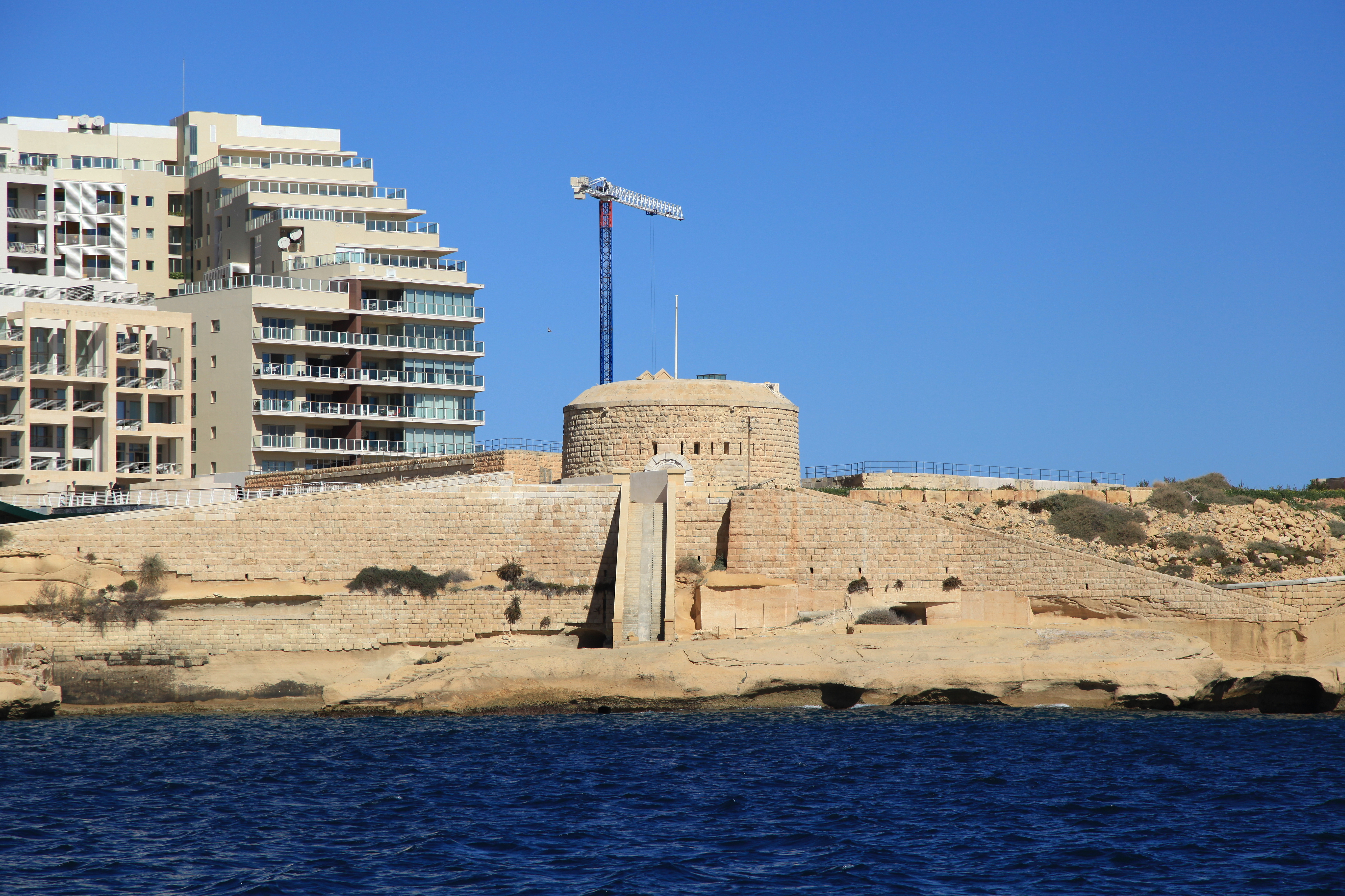 View from a Malta sightseeing two harbours cruise boat to Fort Tigné in Sliema, Malta